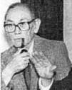 Fred Korematsu (1919–2005) – known for challenging internment orders during World War II and then becoming a spokesperson for civil rights